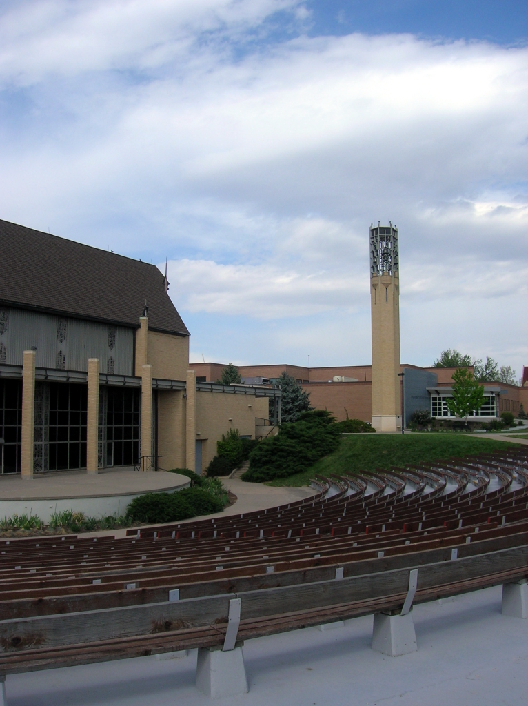 This is a photo facing northeast of the chapel and theater at the former Colorado Women's College campus in Denver, Colorado. For a time, the campus belonged to the University of Denver. Now it is home to the Denver satellite campus of Johnson & Wales University.